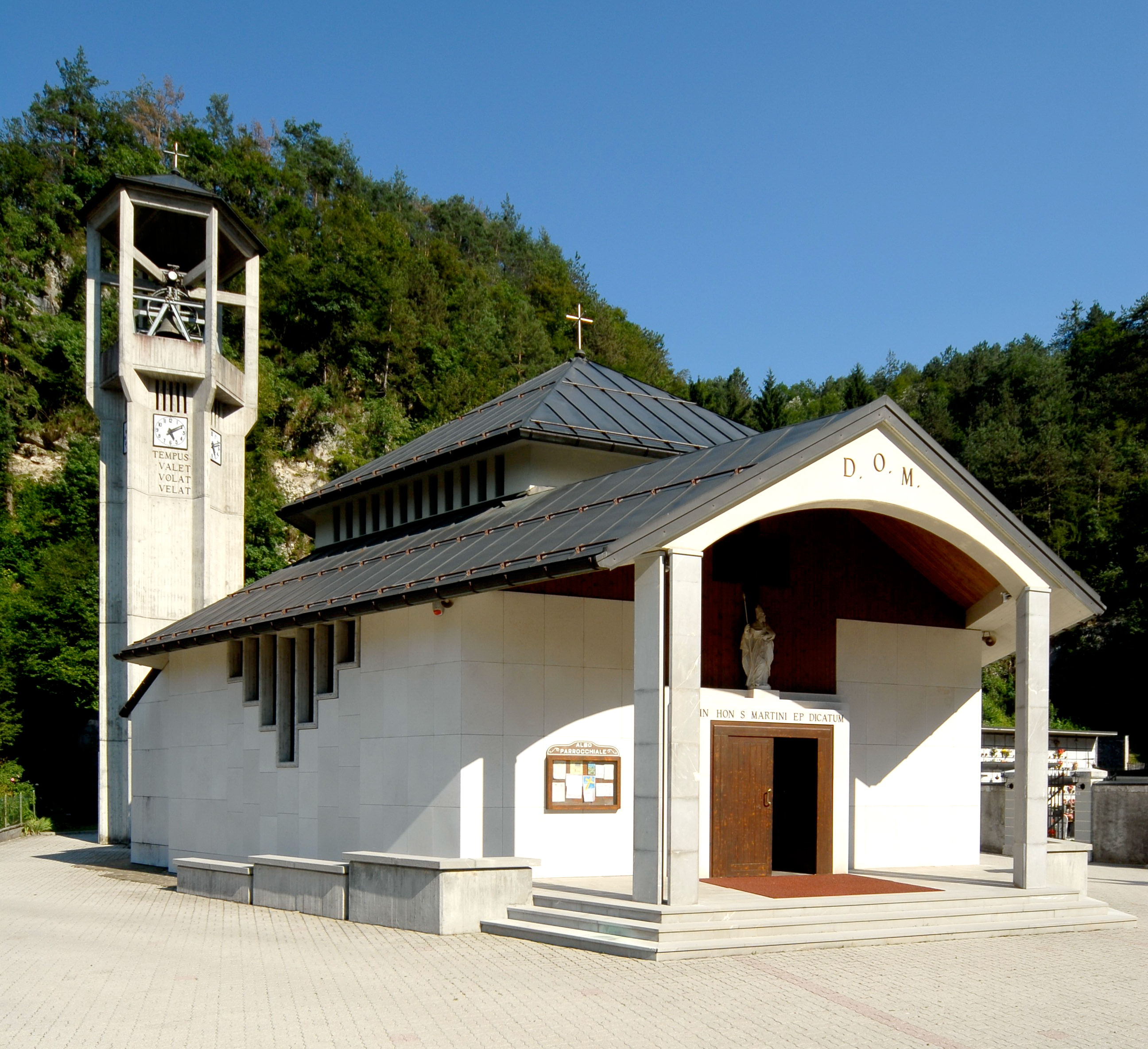 Parish church Saint Martin at Resiutta in the Fella valley / Canal del Ferro / Friuli-Venezia Giulia / Italy / EU. Line of sight east.